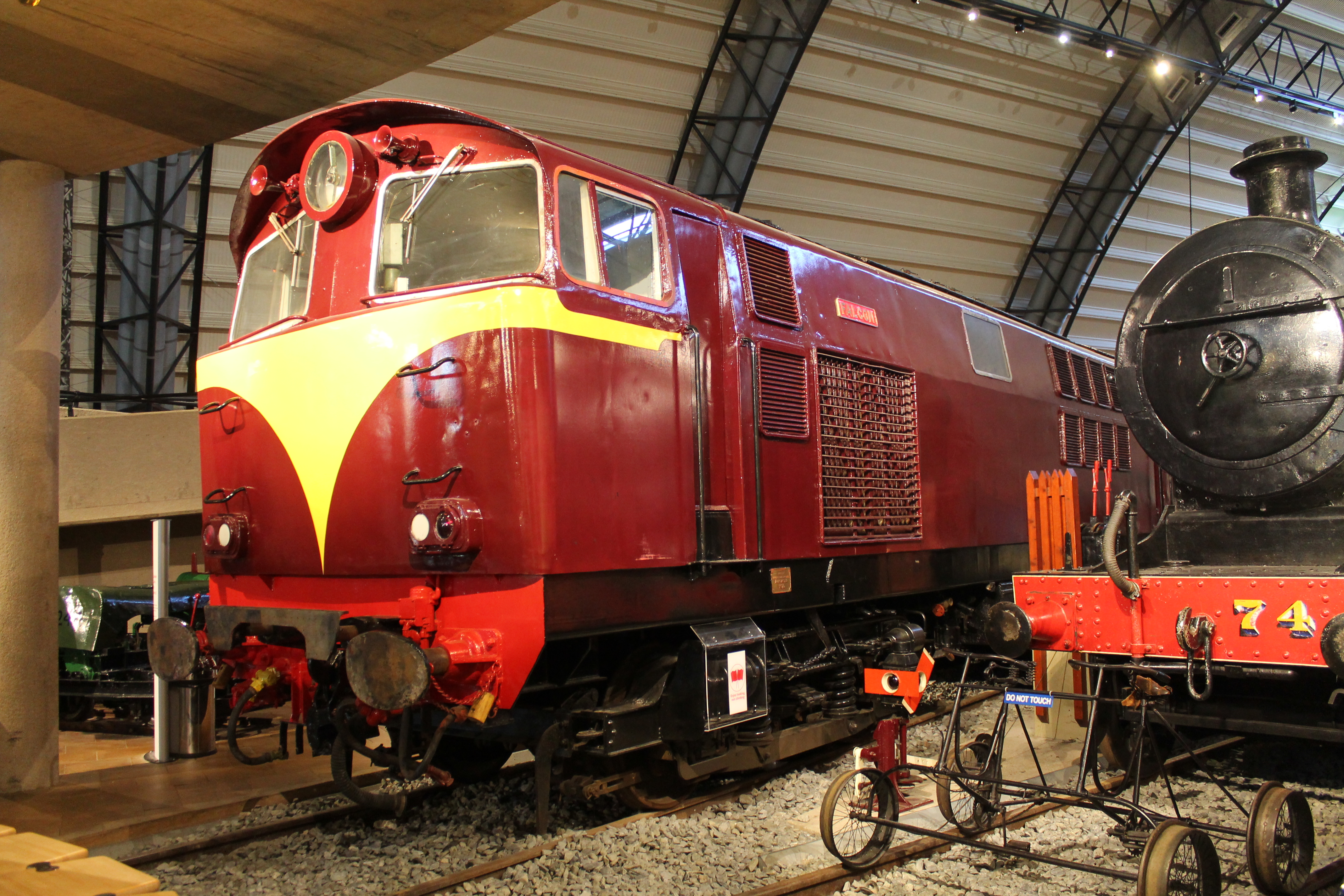 102 At the UFTM. 30/12/2014